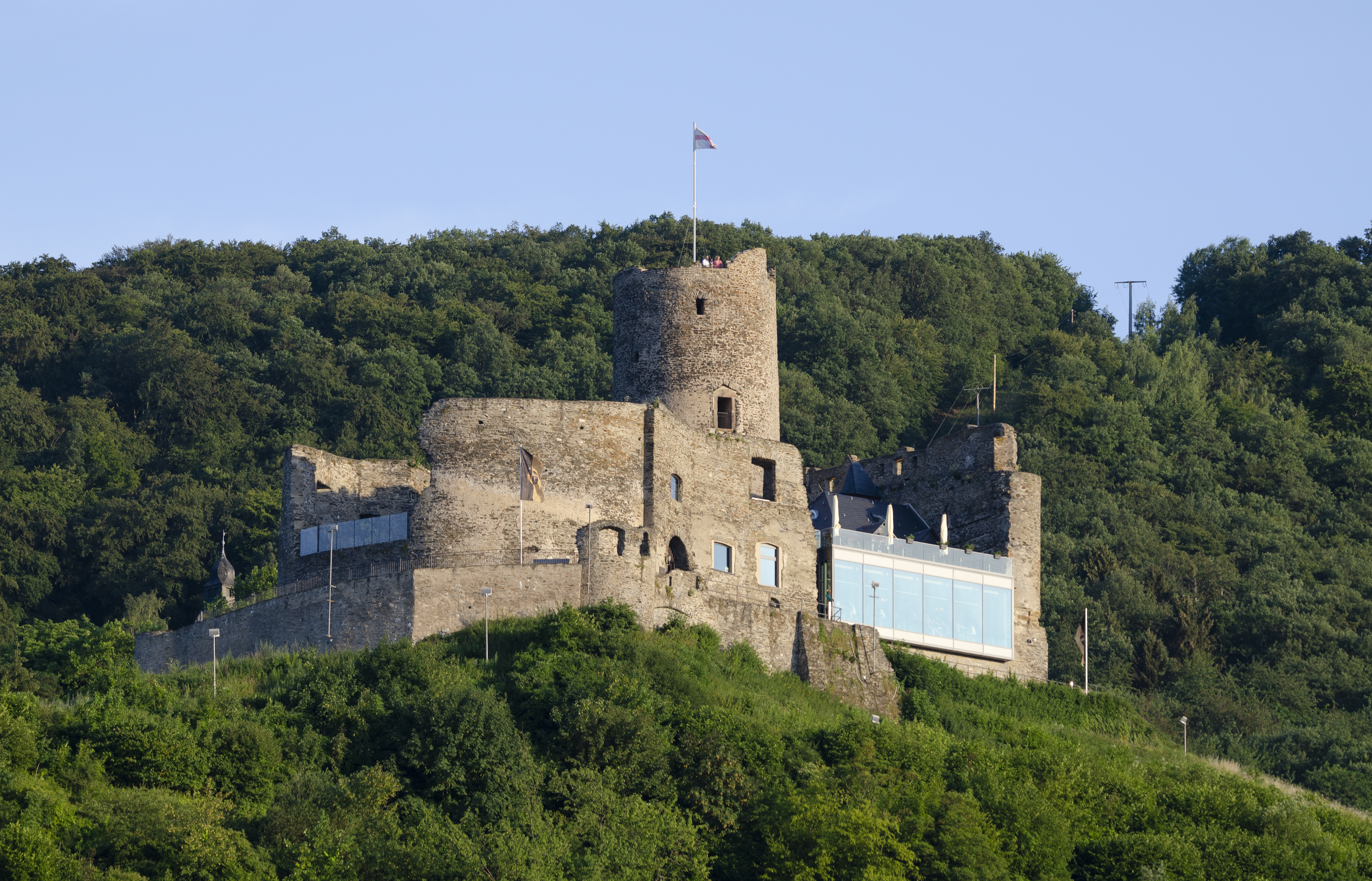 The castle Burg Landshut in Bernkastel-Kues. The late 13th century castle was built upon Roman remains, and mostly destroyed by accidental fire in 1692.